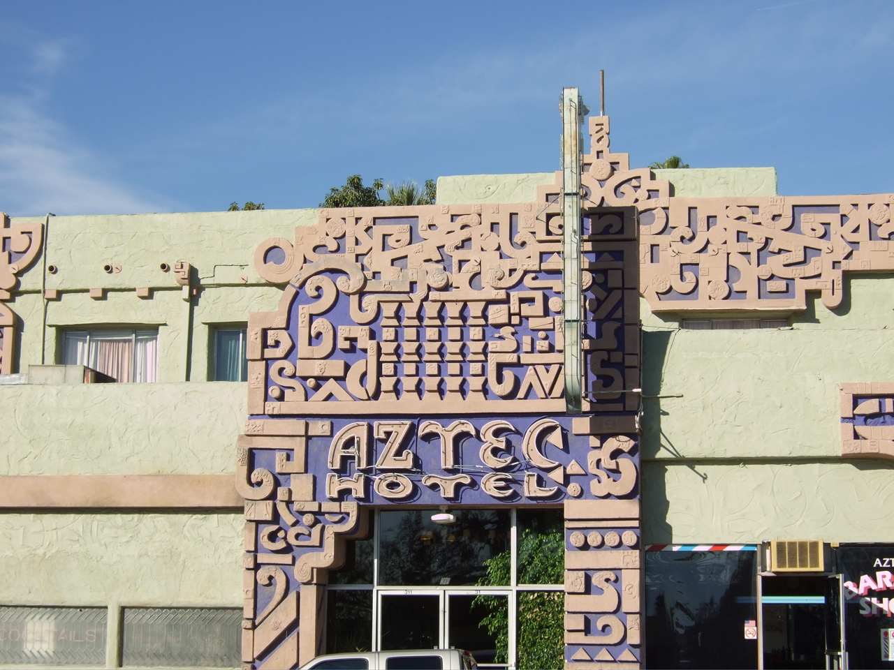 A part of the facade in front of the Aztec Hotel, a historic building in Monrovia, California.